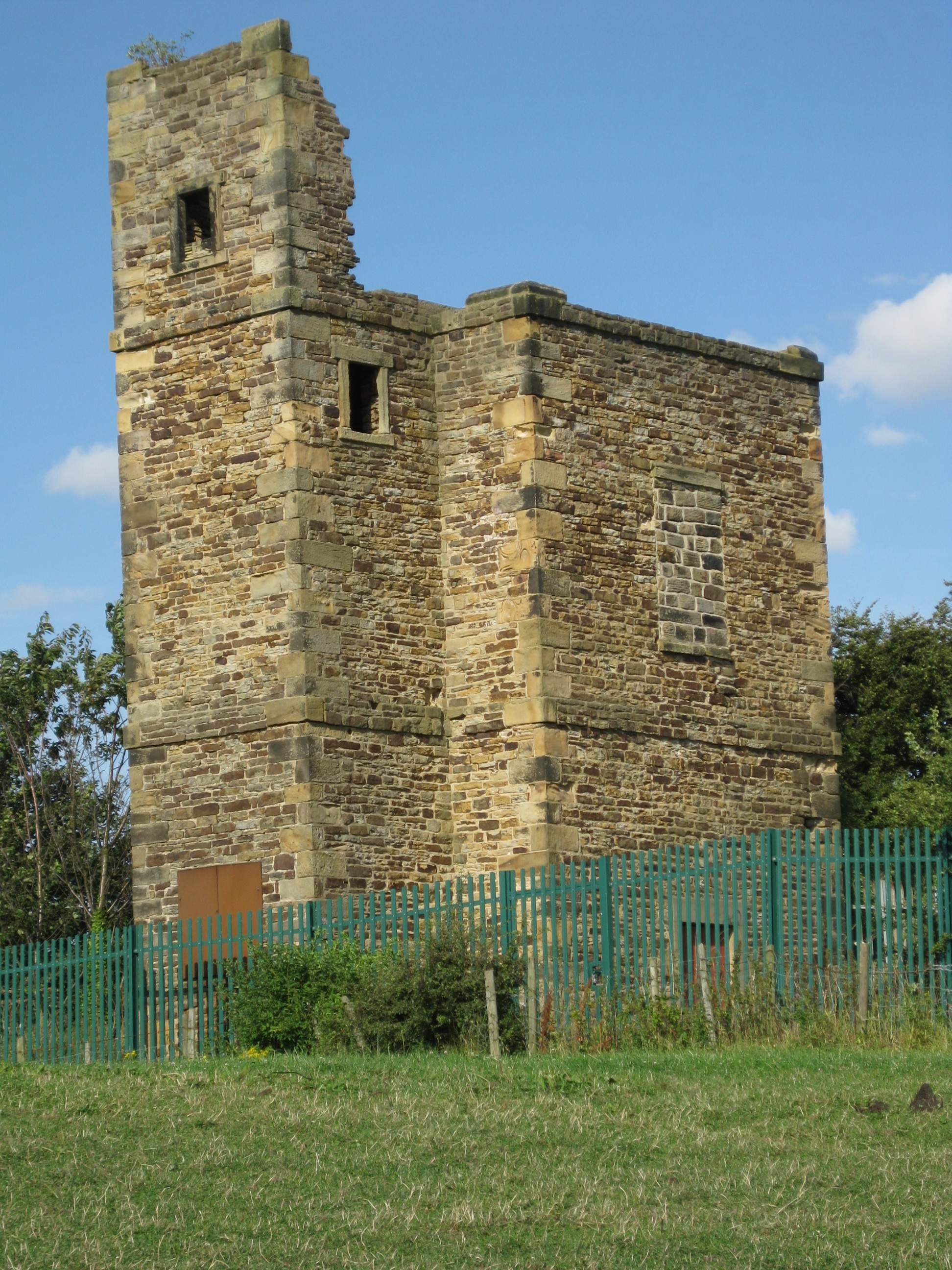 Lowe Stand, Nether Hawshaw Lane, Hoyland, South Yorkshire. Built about 1750, probably as a hunting lodge and lookout. Now partly ruined.